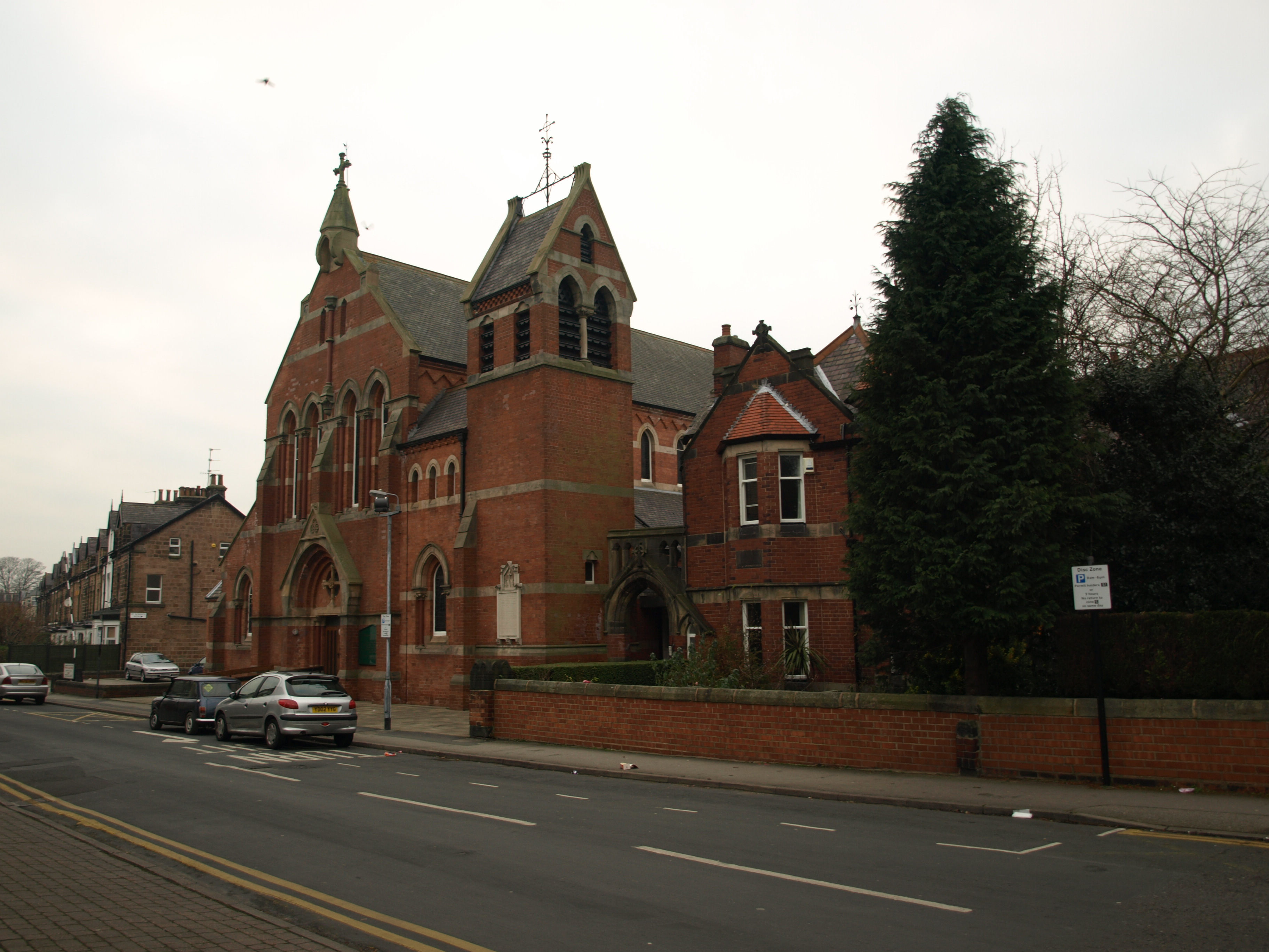 Roman Catholic church of Our Lady Immaculate and St Robert, Robert Street, Harrogate, North Yorkshire, seen from the east. The house on the right is the presbytery.